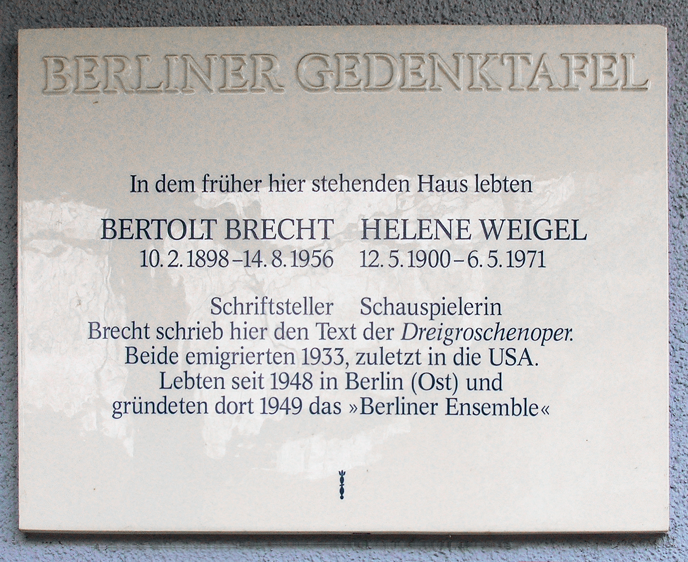 Berlin memorial plaque, Helene Weigel, Bertolt Brecht, Spichernstraße 16, Berlin-Wilmersdorf, Germany Koordinate:52°29′48″N 13°19′55″E / 52.49667°N 13.33194°E